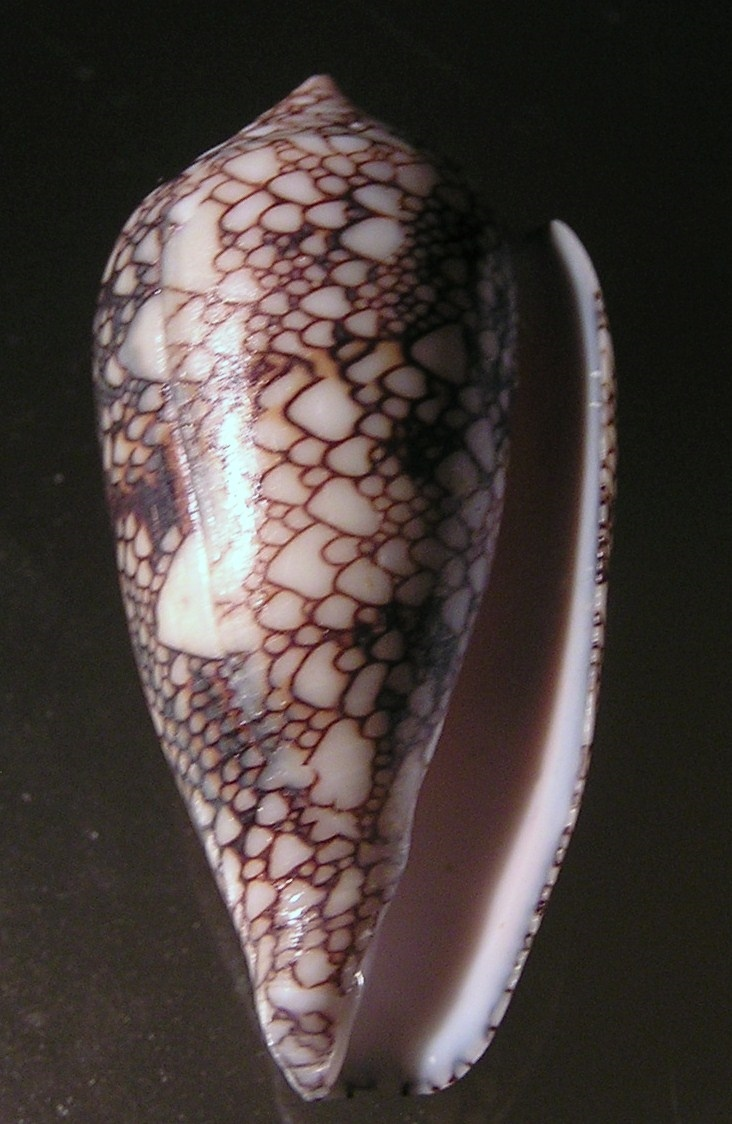 Conus canonicus Hwass in Bruguière, 1792 , a cone snail in the family Conidae; Seychelles